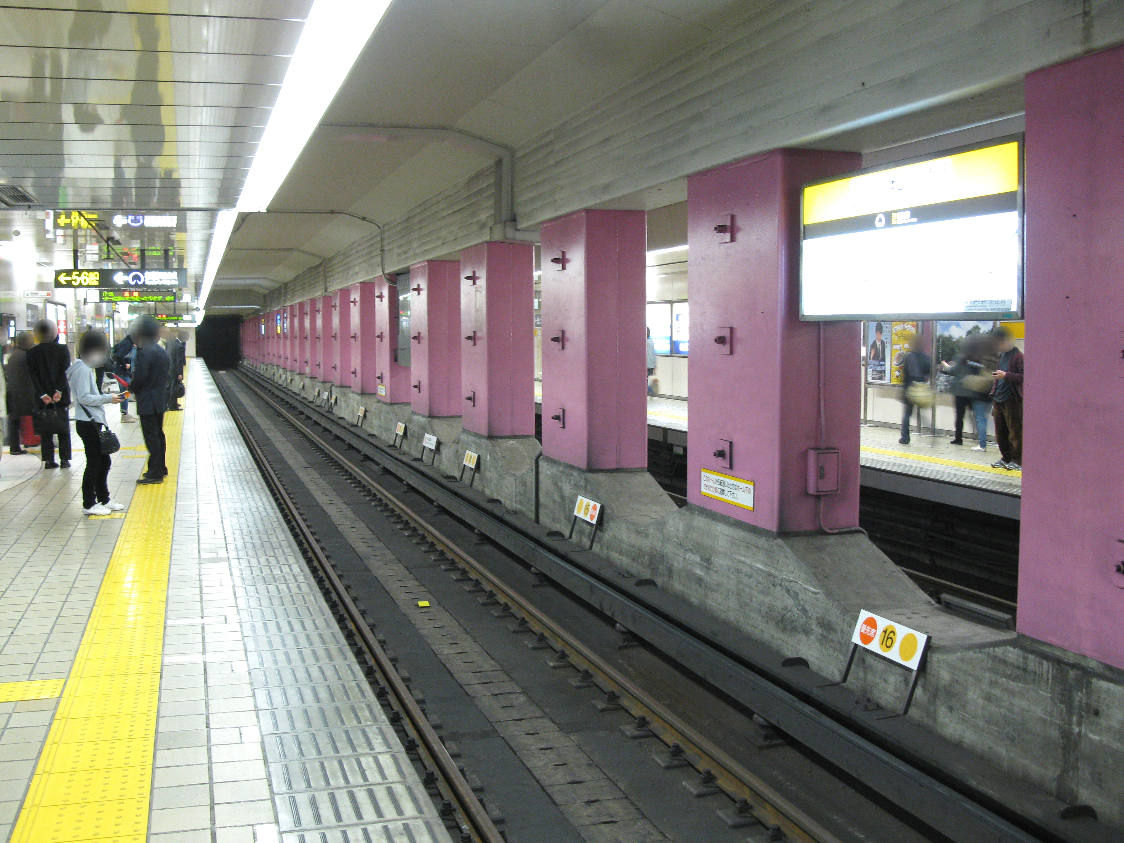 Motoyama Station platform (Nagoya Municipal Subway Higashiyama Line)